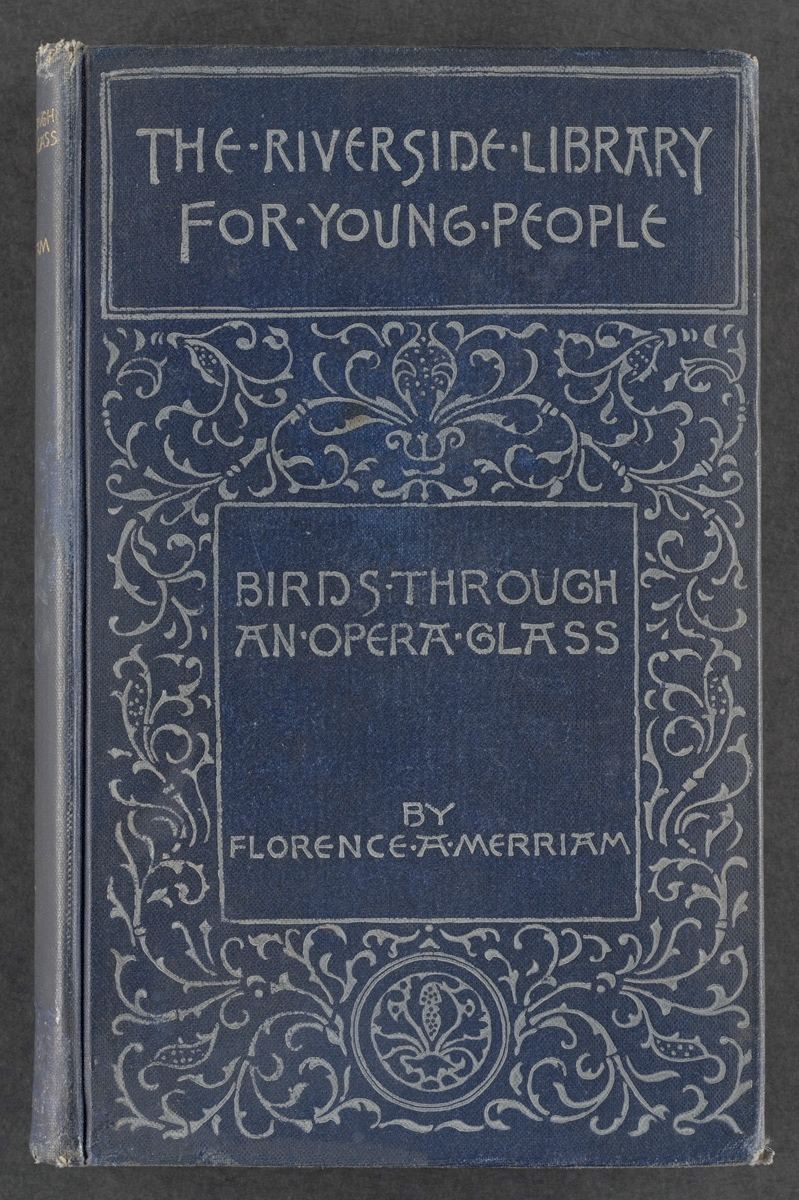 File name: 06_04_000016Title: BAILEY(1897) Birds through an opera glassDate issued: 1897Genre: Book coversNotes: Bailey, Florence Merriam, 1863-1948 (Author)Collection: Sarah Wyman Whitman BindingsLocation: Boston Public Library, Special CollectionsRights: No known copyright restrictions.